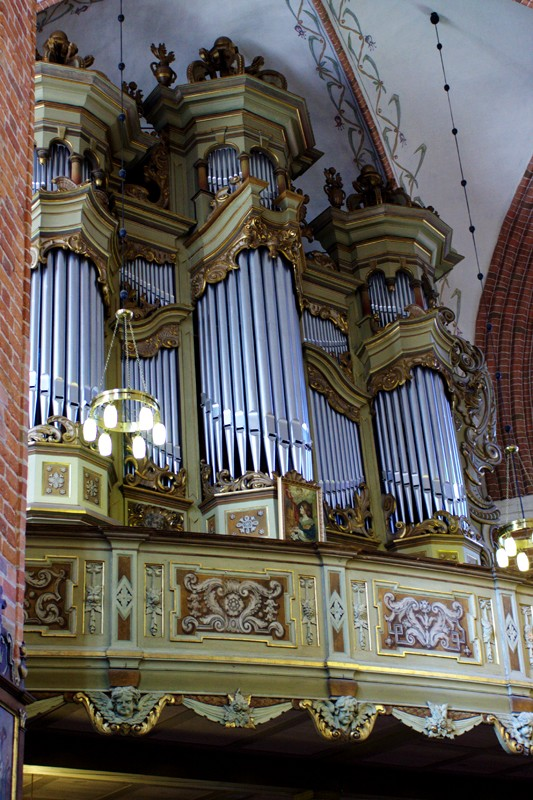 The organ folder of StMary's church in Gryfice (Poland)